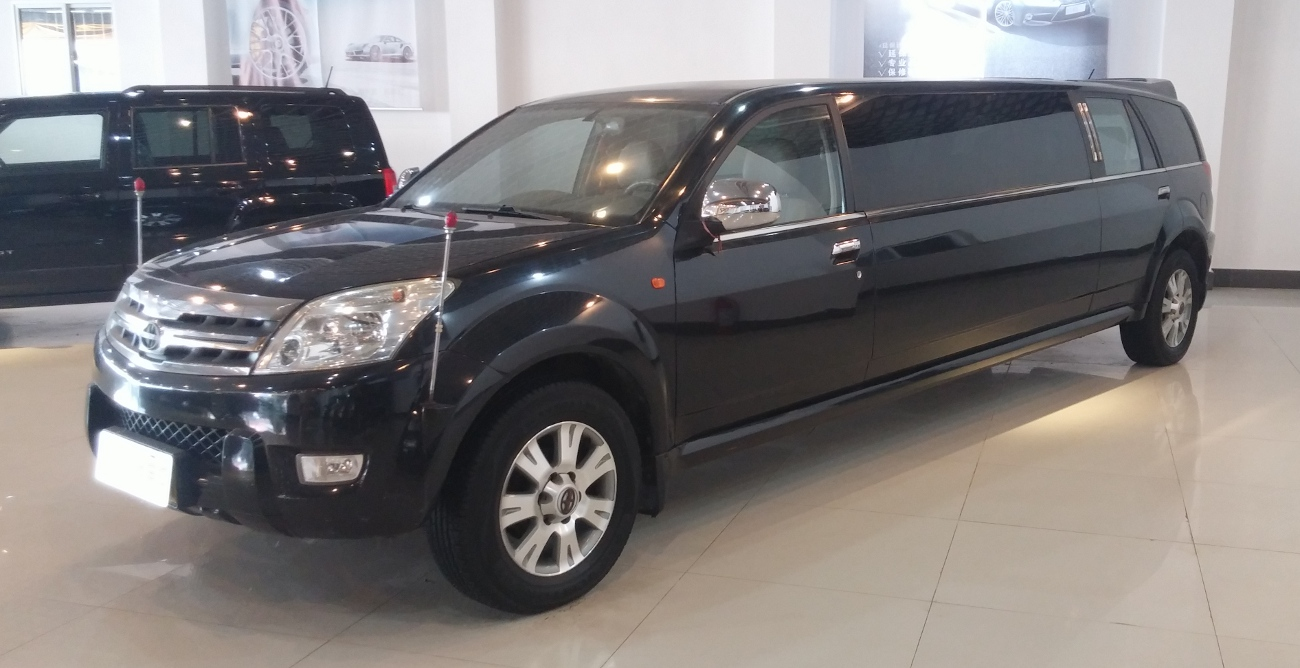 Great Wall Hover Π photographed in Wuhan, Hubei province, China.